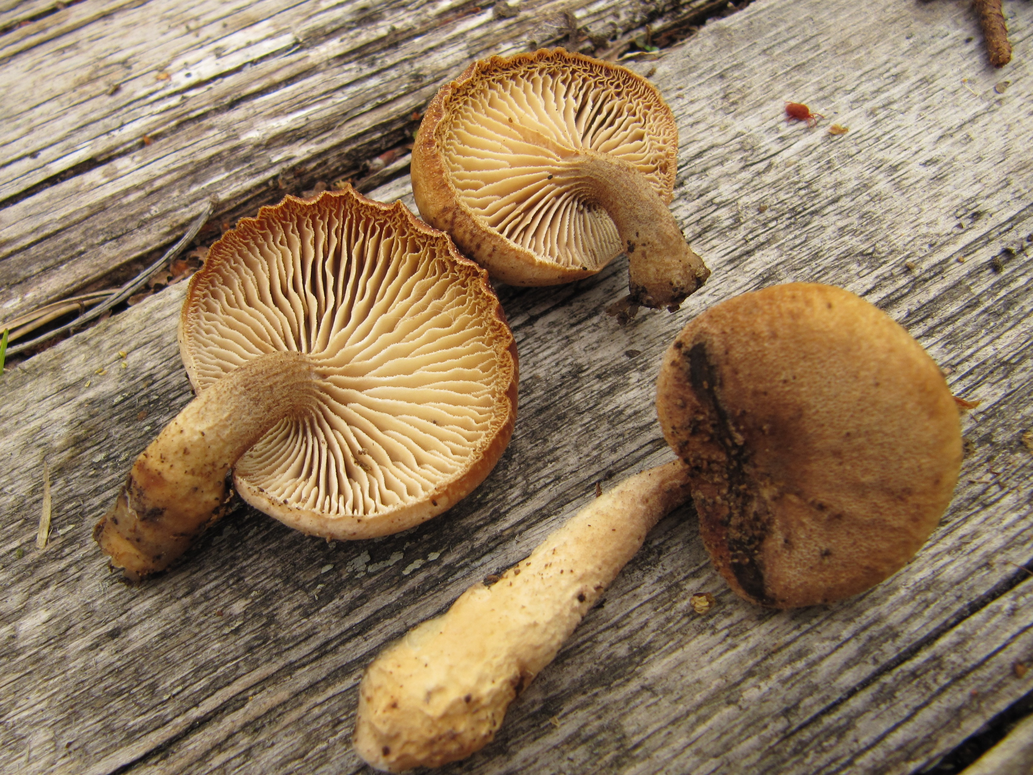 Lentinus adhaerens